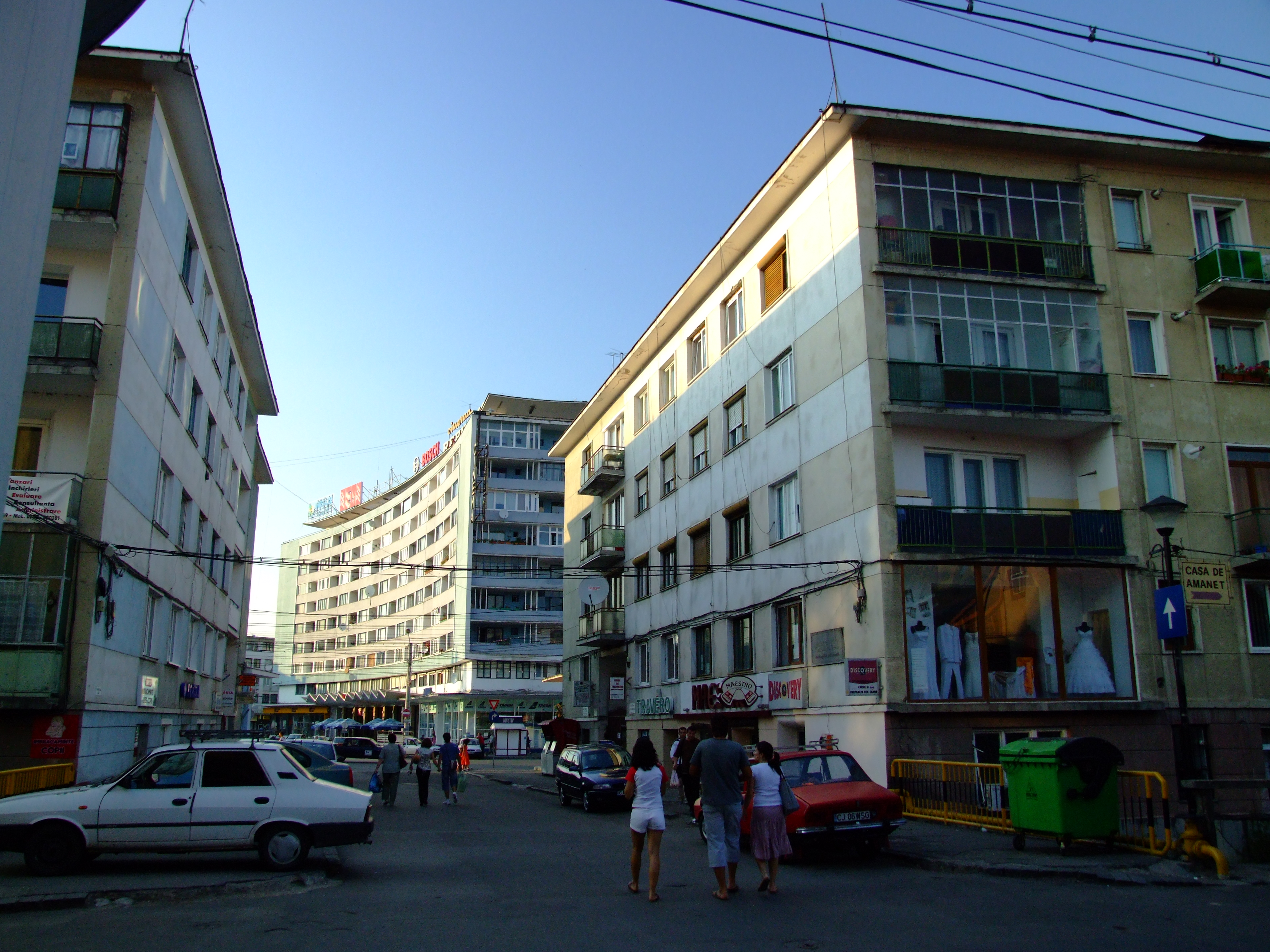 Are not the prettiest ones I have ever seen